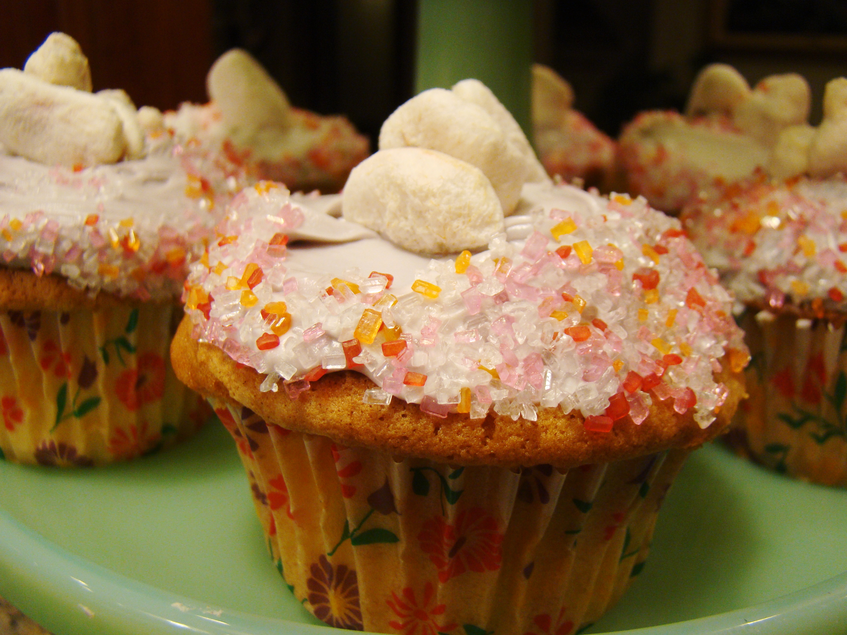 Mangosteen...in the batter, in the center, in the frosting and on top!